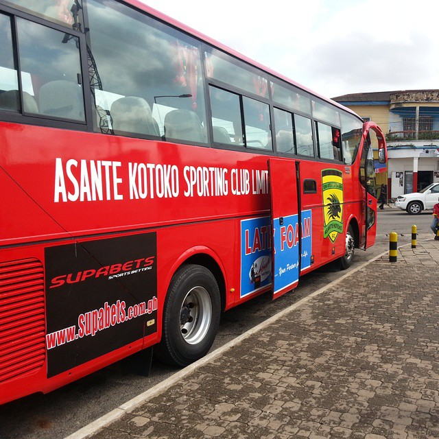 Kumasi Asante Kotoko SC Team Bus